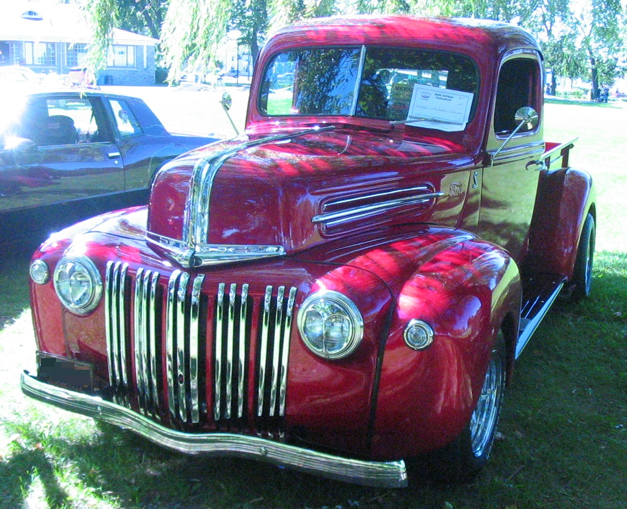 1946 Ford pickup photographed in Salaberry-De-Valleyfield, Quebec, Canada at Auto antique Salaberry-De-Valleyfield 2011.